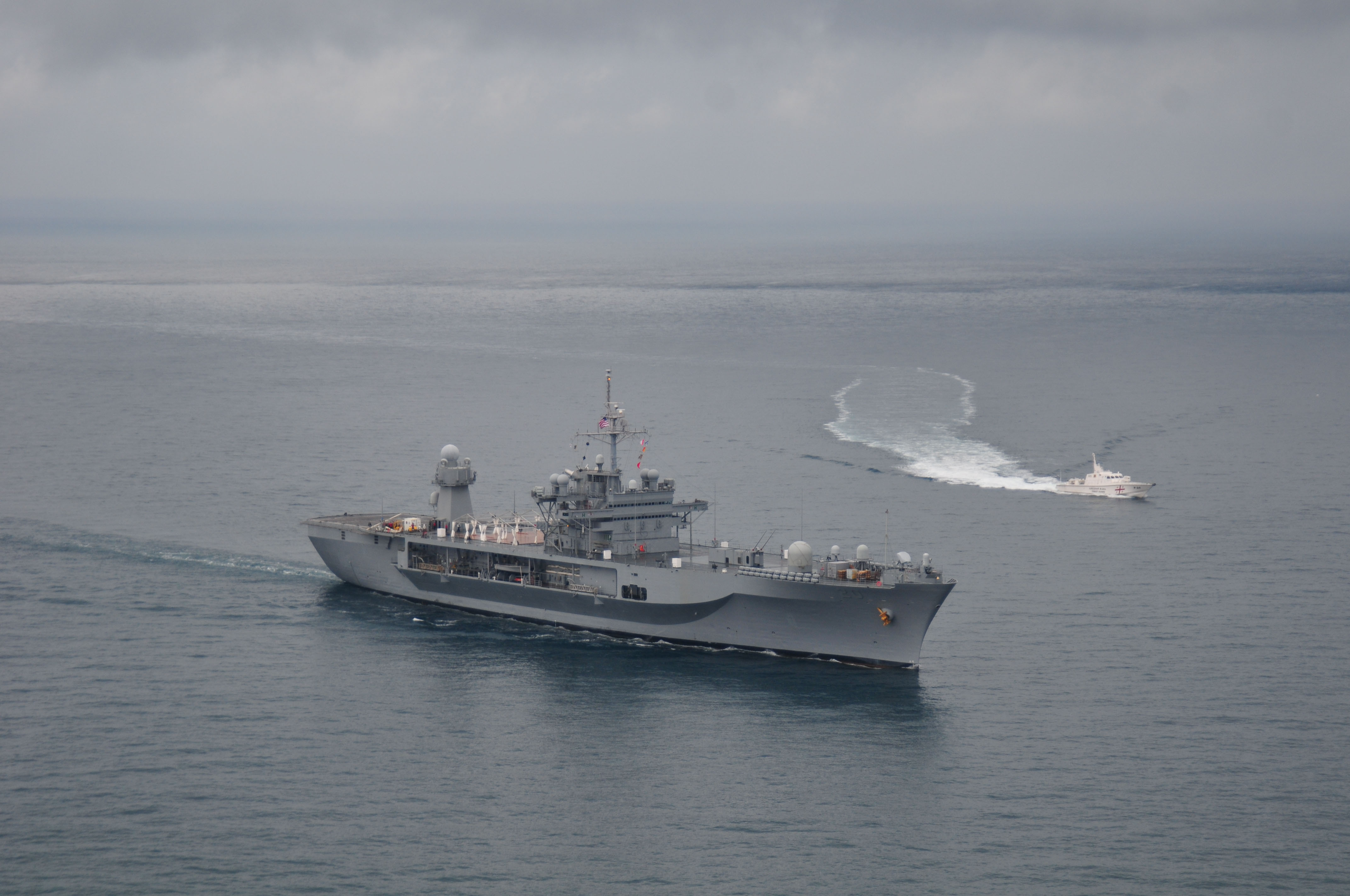 The U.S. 6th Fleet flagship USS Mount Whitney (LCC 20), left, is underway with the Georgian coast guard ship Sokhumi P-24. Mount Whitney, home-ported in Gaeta, Italy, is underway in support of maritime security operations and theater security cooperation efforts in the U.S. 6th Fleet area of responsibility. (U.S. Navy photo by Mass Communication Specialist 1st Class Collin Turner/Released)